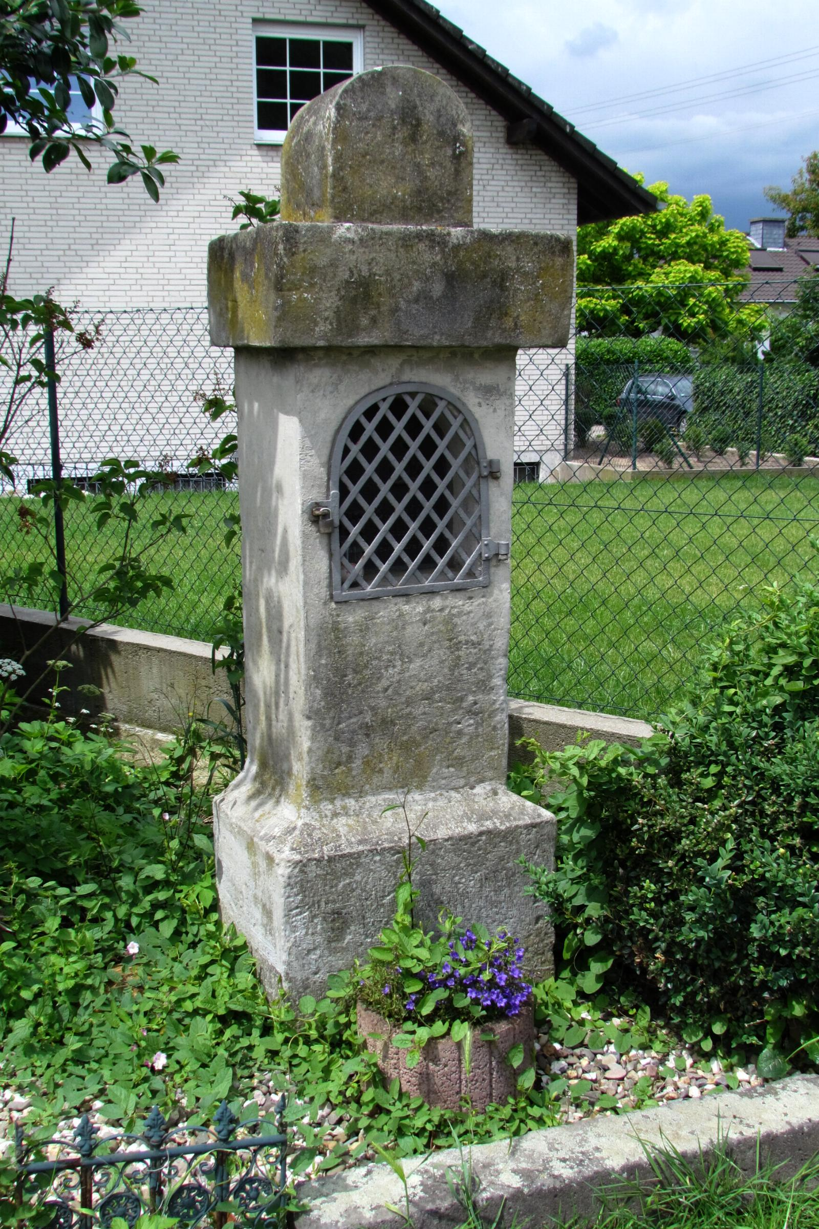 This is a photograph of an architectural monument.It is on the list of cultural monuments of Korschenbroich